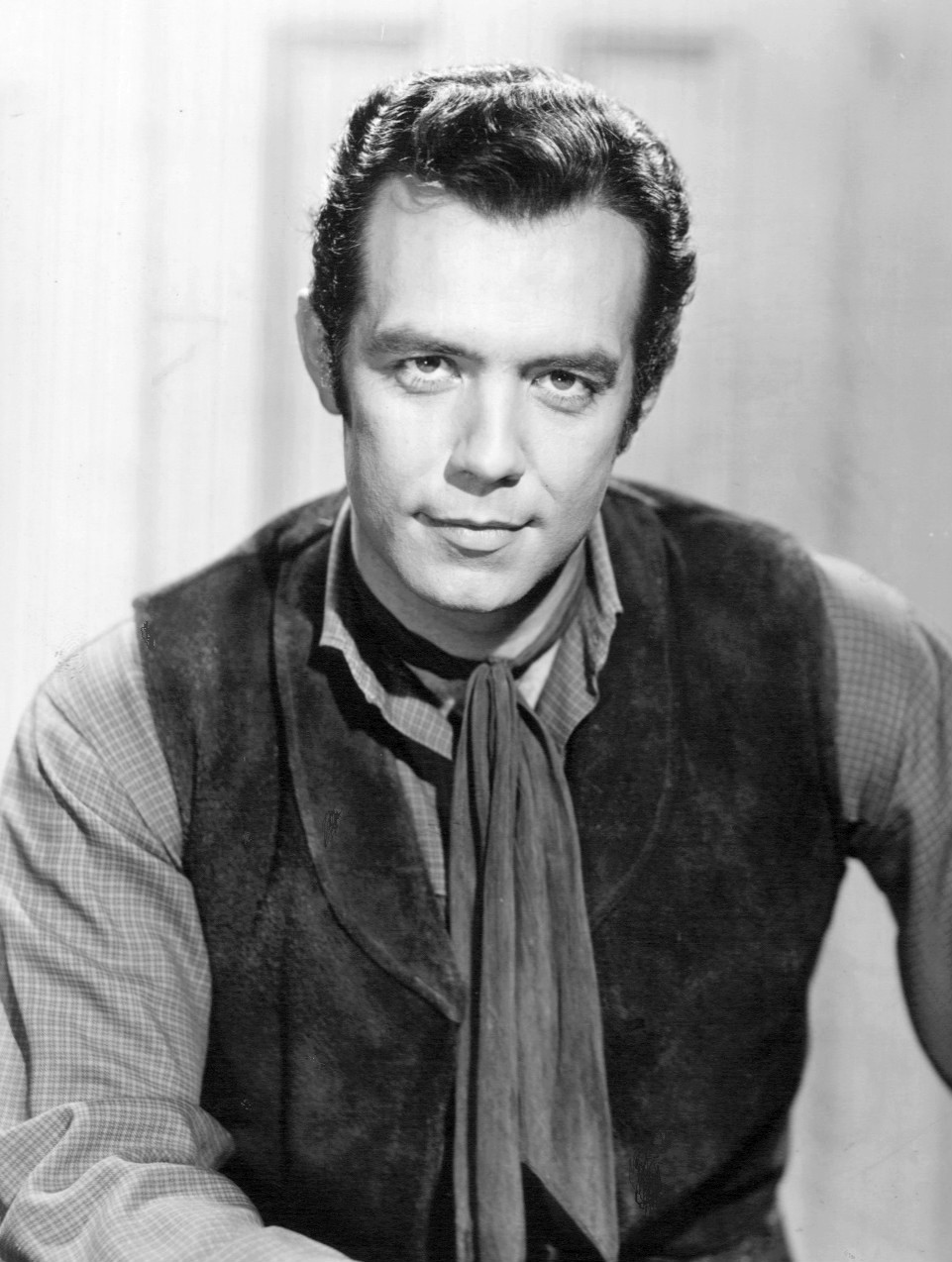 Publicity photo of Pernell Roberts as Adam Cartwright of the television series Bonanza. Press release from NBC, proprietor of this photo, was Fall 1959. Field Enterprises, Inc., stamped this photo on September 1966 (blurry without color) and then used it for the 1988 article.